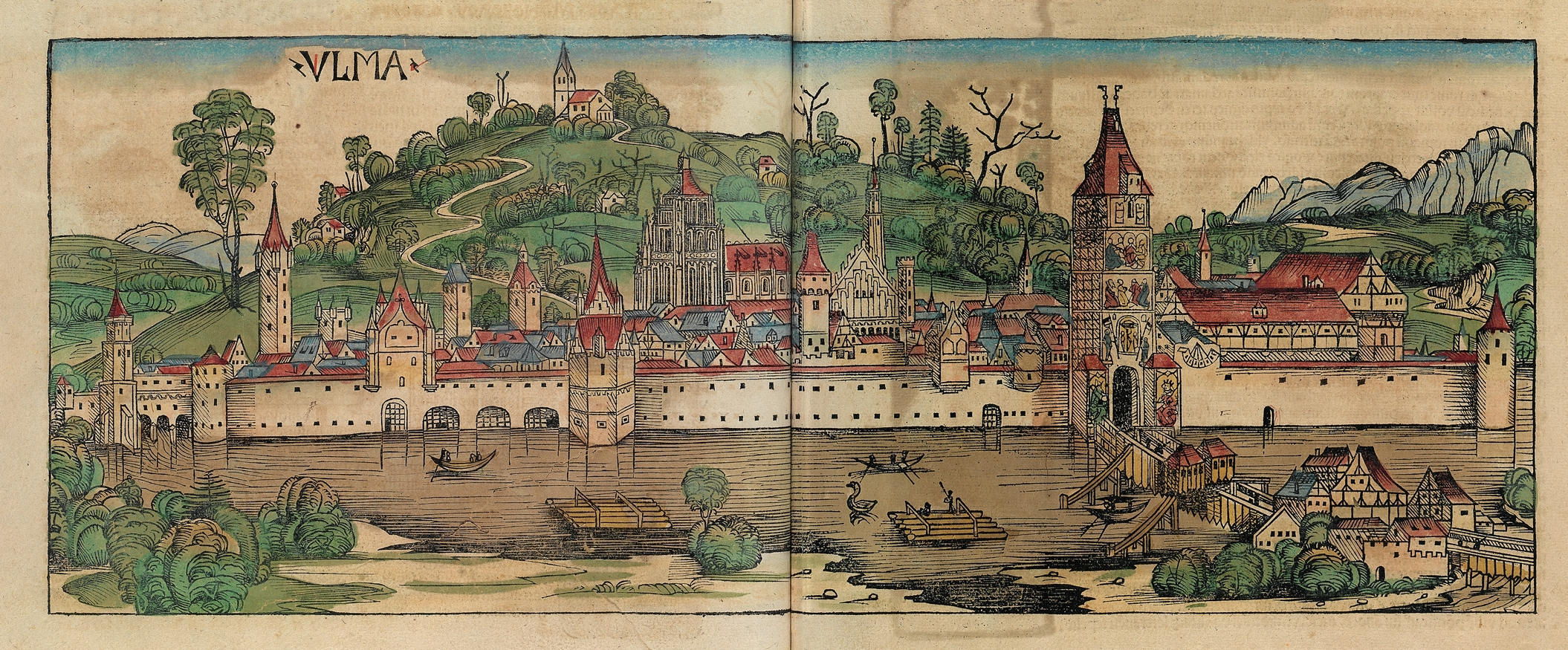 This is a part of a scan of an historical document: Title: Schedelsche Weltchronik or Nuremberg Chronicle